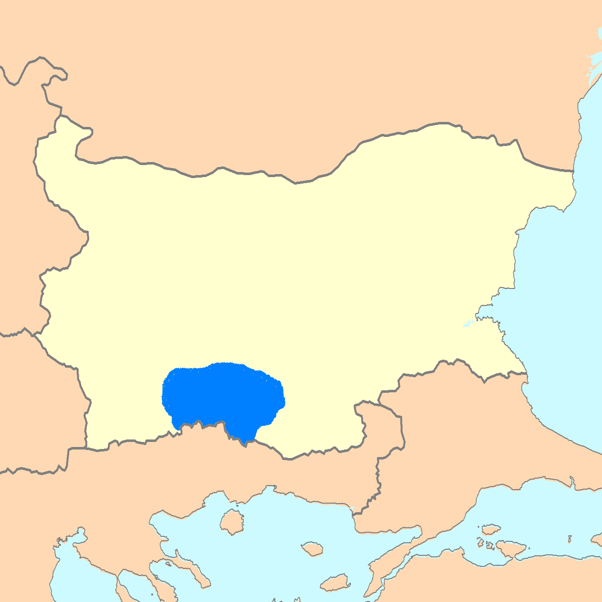 Middle Rhodopean Sheep area of distribution